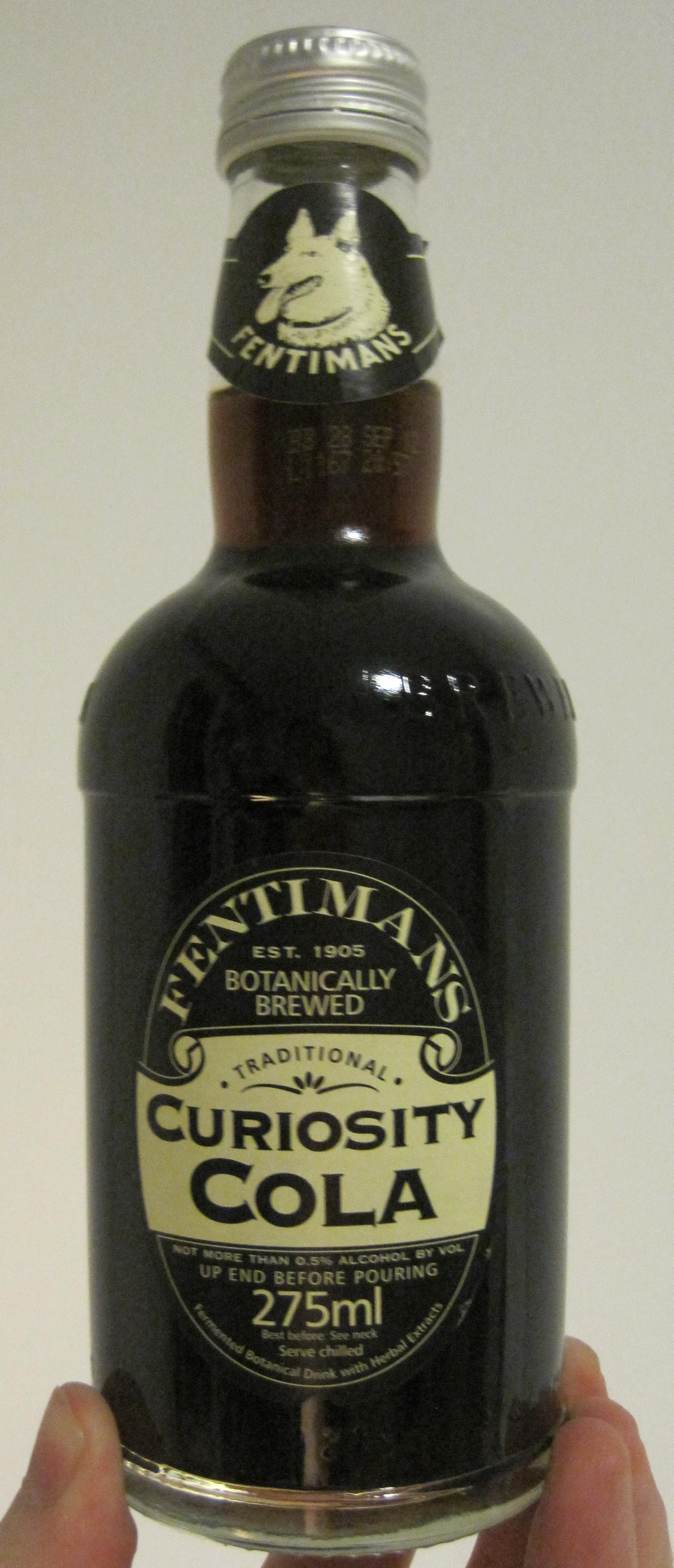 A bottle of Fentimans Curiosity Cola check usage